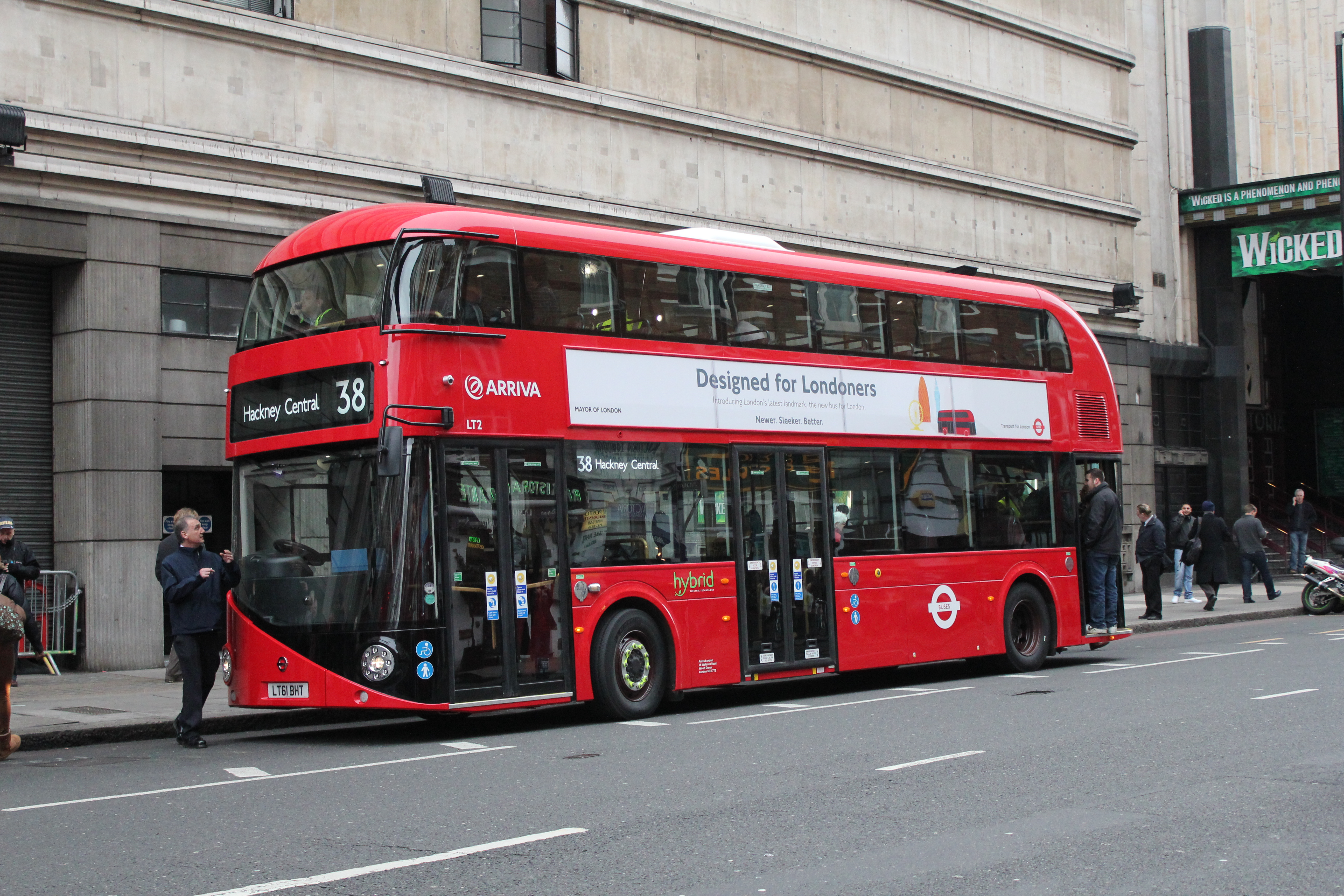 Arriva London bus LT2 (reg. LT61 BHT), the second of the batch of 8 pre-production working prototypes of the New Bus for London. Along with LT1, it entered trial revenue earning service for the first time today, operating on Arriva's London Buses route 38 as additional short worked extras. It's pictured inbetween journeys, parked up at the Vauxhall Bridge Road bus stands alongside the Apollo Victoria Theatre. Victoria bus station is just around the corner behind the bus.